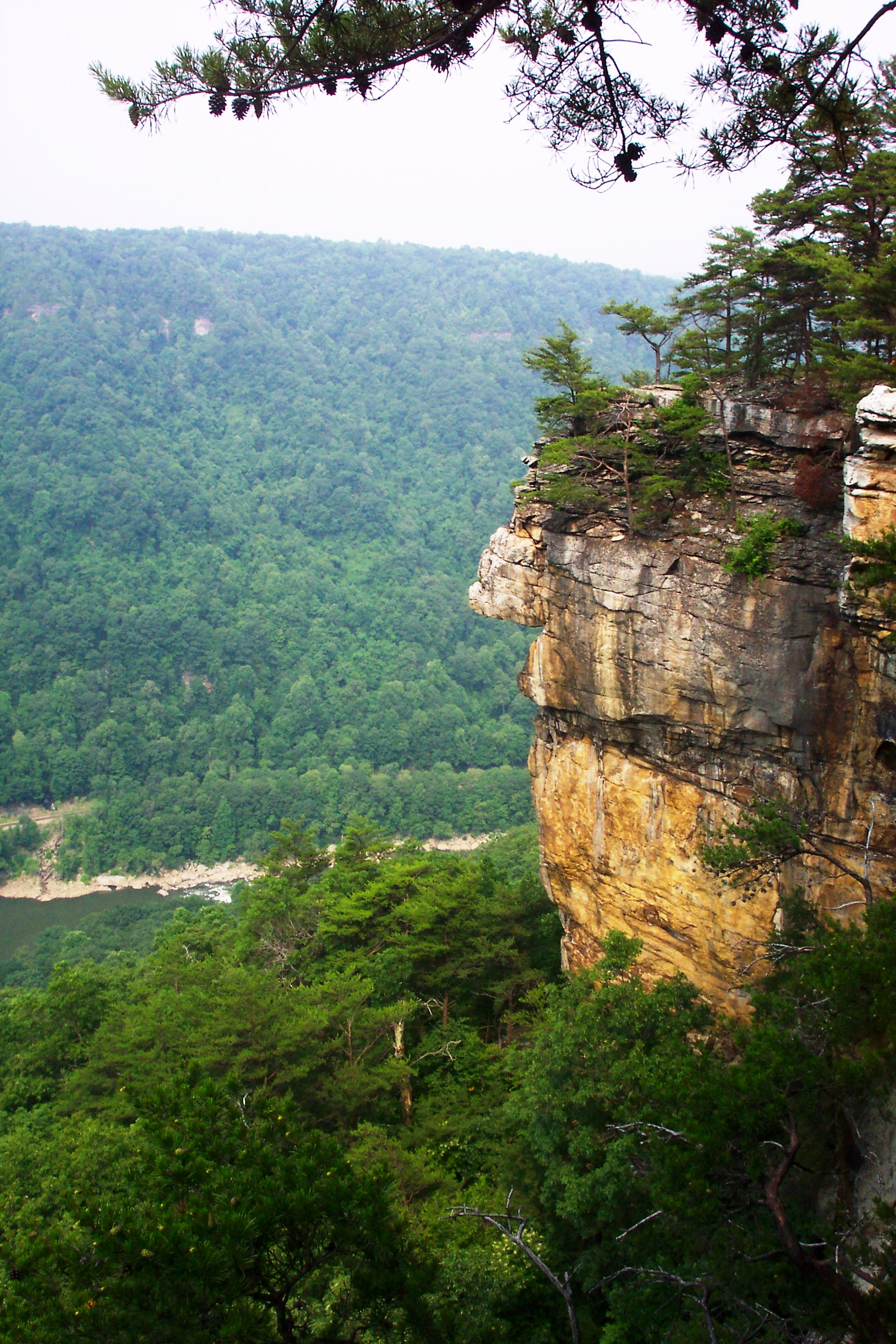 Cliffs of New River Gorge, West Virginia, USA. This section of the cliff is called "Idol Point" in the Endless Wall region.